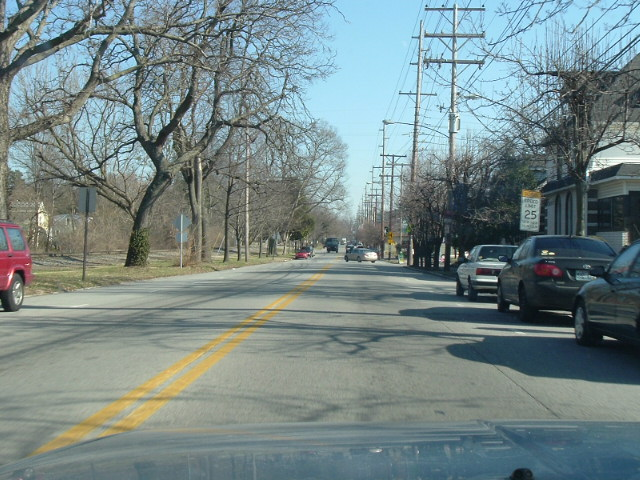 Frankfort Ave LOUKY